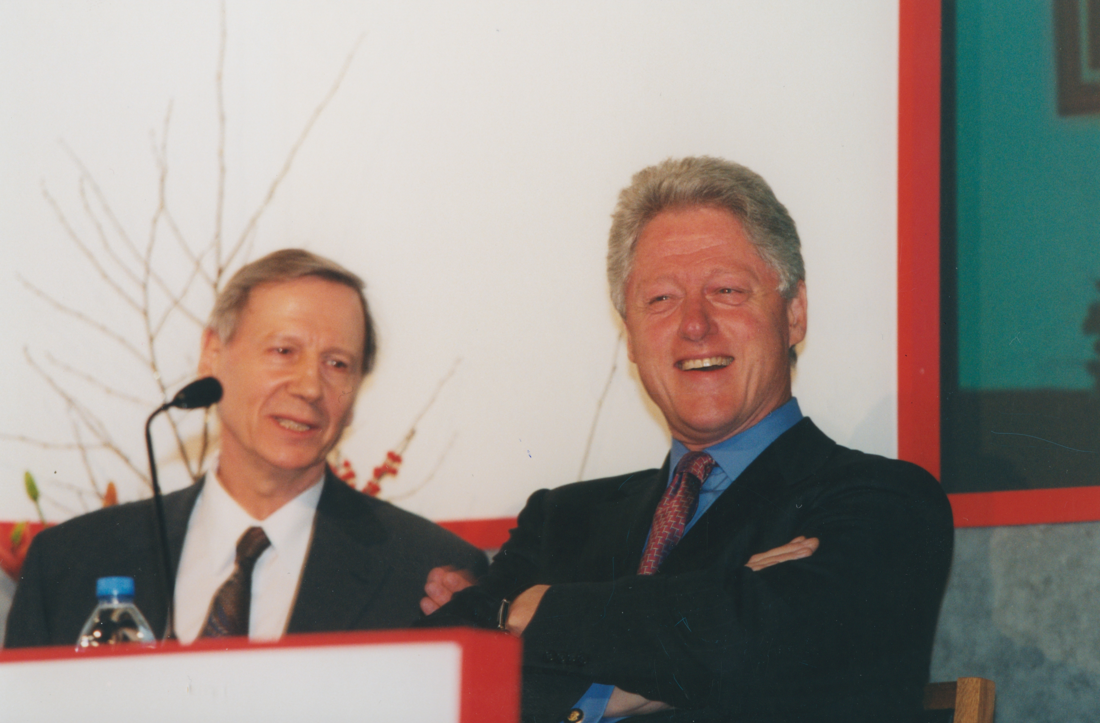 Public lecture, 'On Globalisation,' 13th December 2001 IMAGELIBRARY/566 Persistent URL